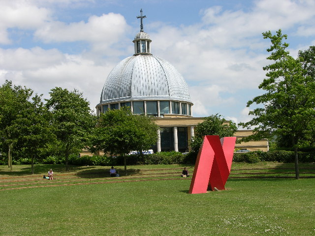 Church of Christ the Cornerstone, Saxon Gate, Milton Keynes. The piece of art in the foreground is one of a series by Bernard Schottlander